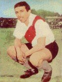 This is a photograph of Angel Labruna during his time with River Plate in Argentina. He played for the club between 1939 & 1959.